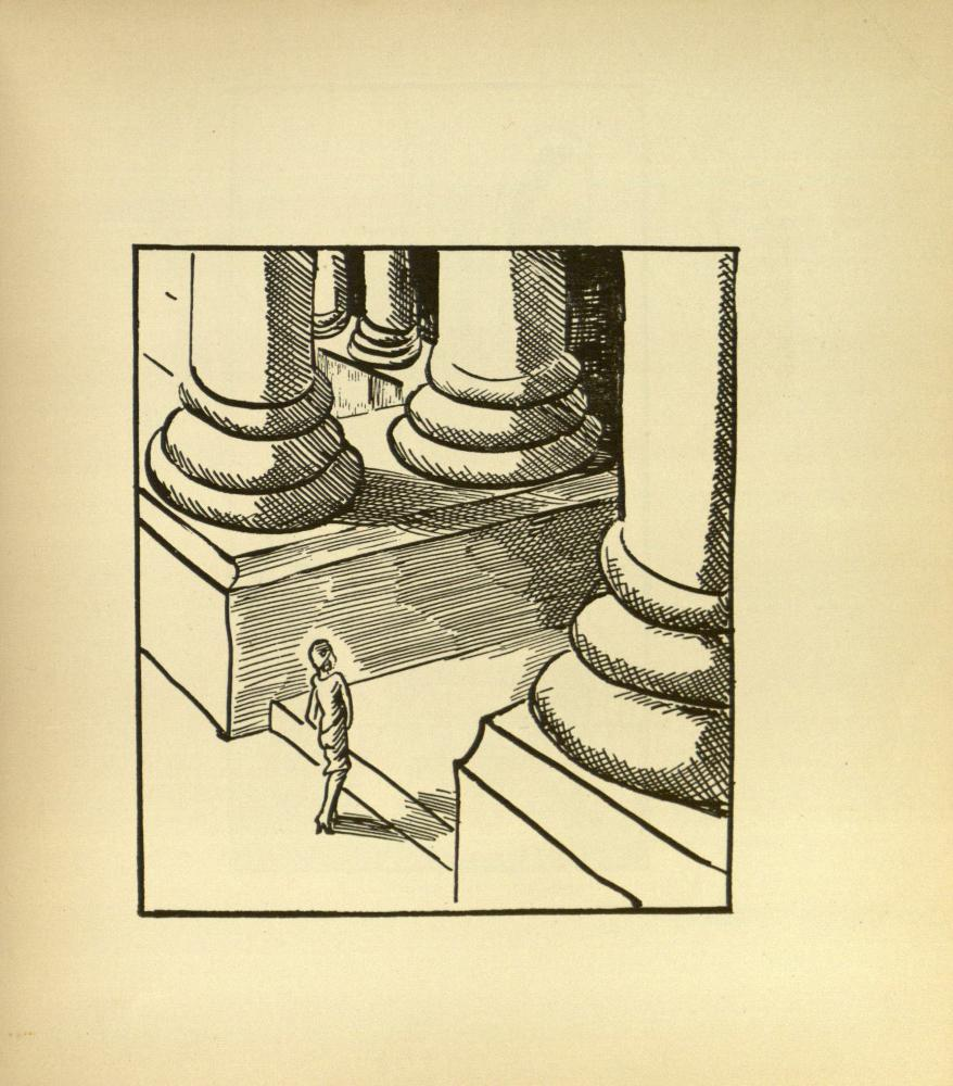 Page from He Done Her Wrong by Milt Gross